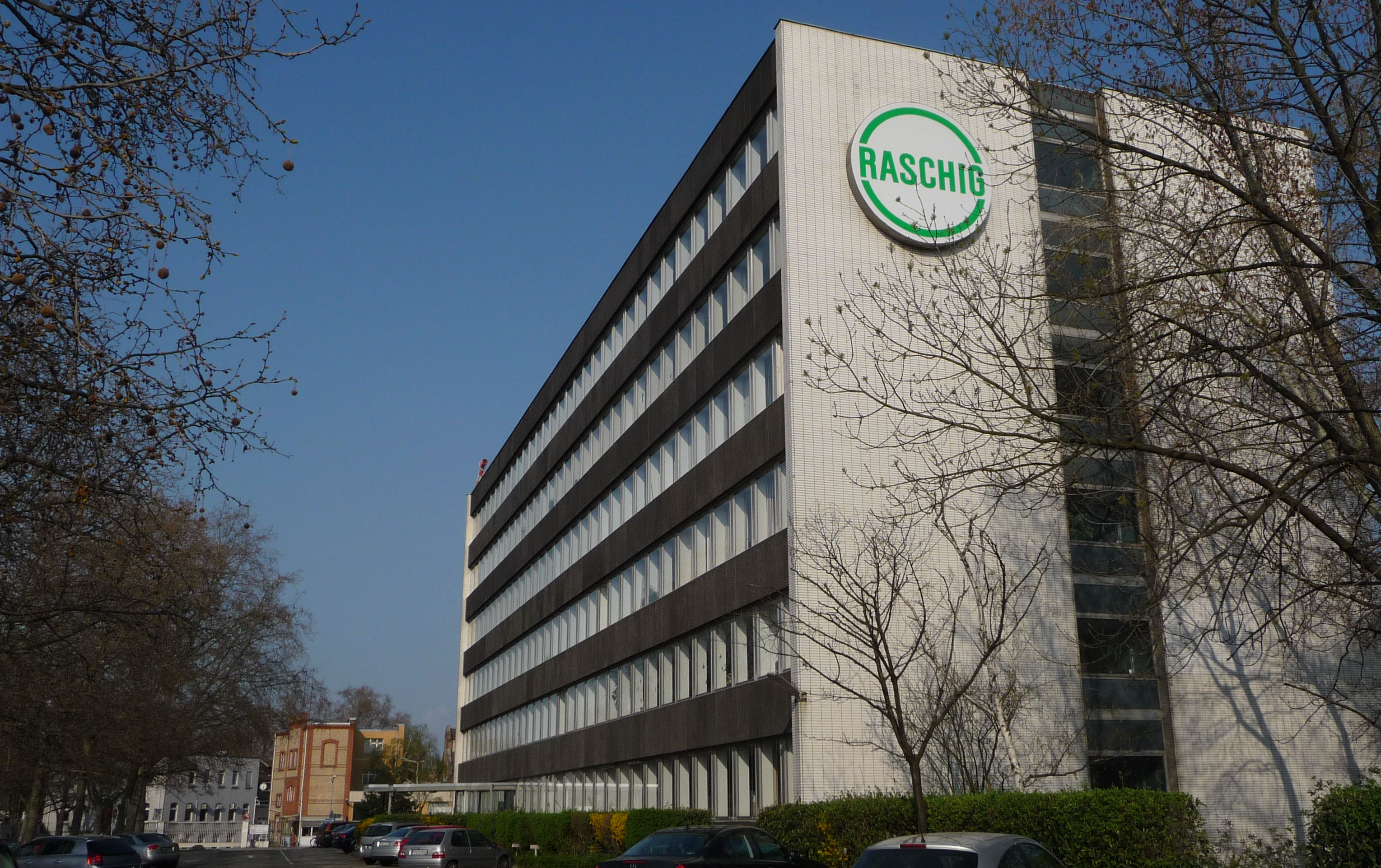 factory in Ludwigshafen, Germany